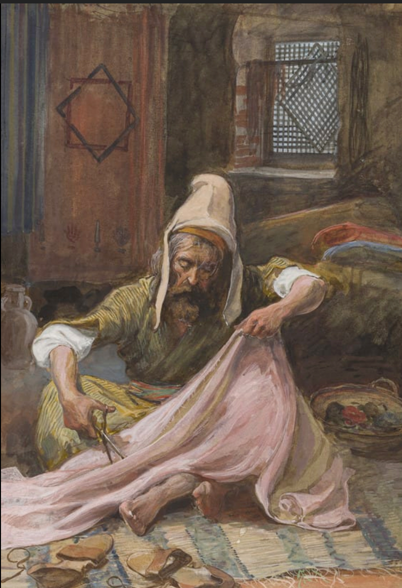 The Tailor, watercolor circa 1896–1902 by James Tissot